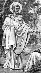 Image of Saint Frumentius of Ethiopia